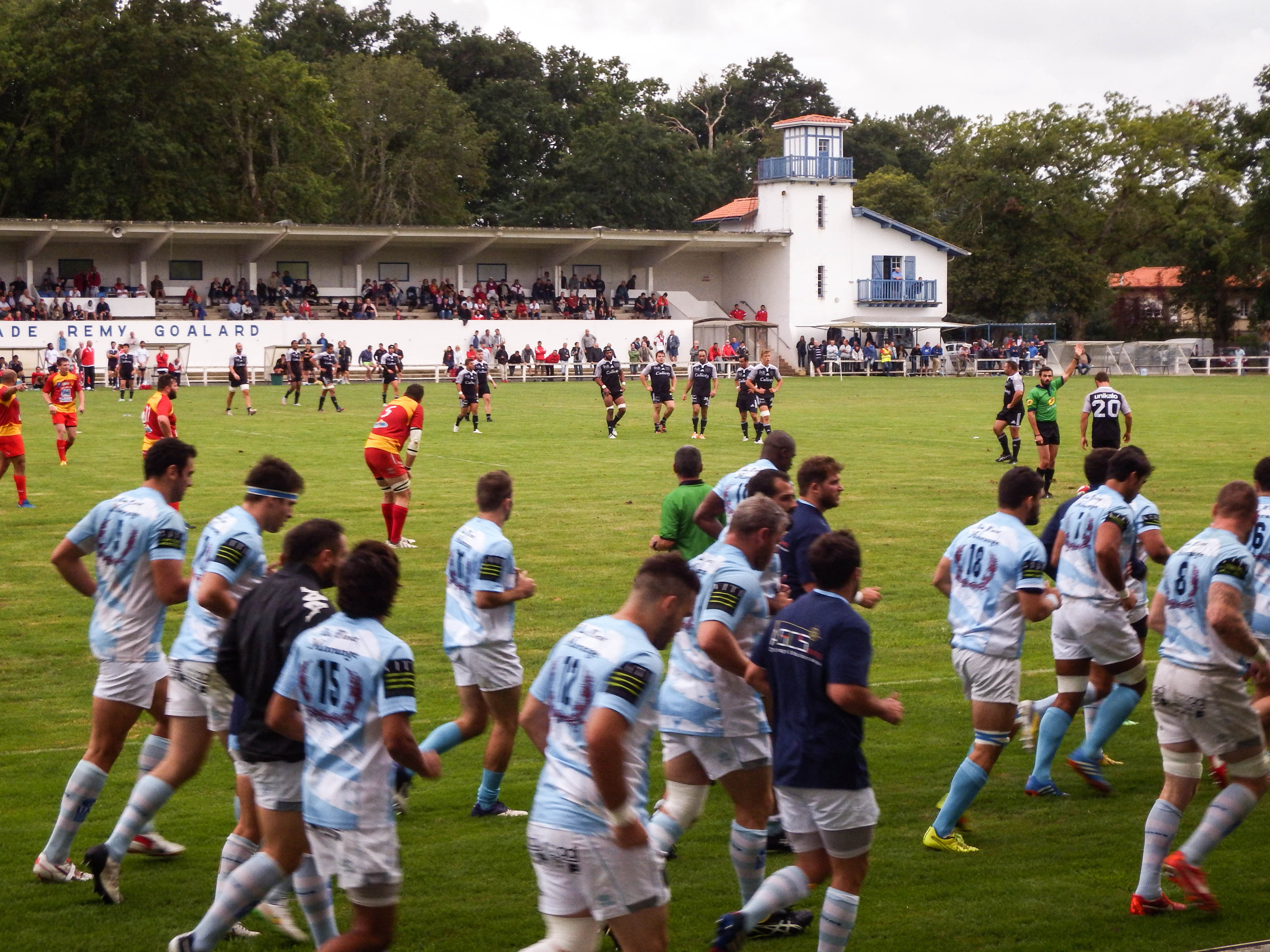 rugby union friendly match — 14 August 2015, stade Rémy-Goalard. Match between: US Dax — Stade Rodez Aveyron